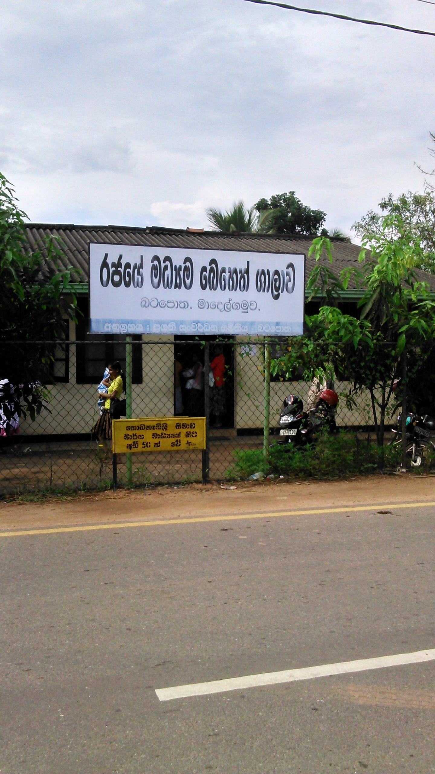 Central Dispensary, Batapotha සිංහල: රජයේ මධ්‍යම බෙහෙත් ශාලාව, බටපොත, මාදෙල්ගමුව